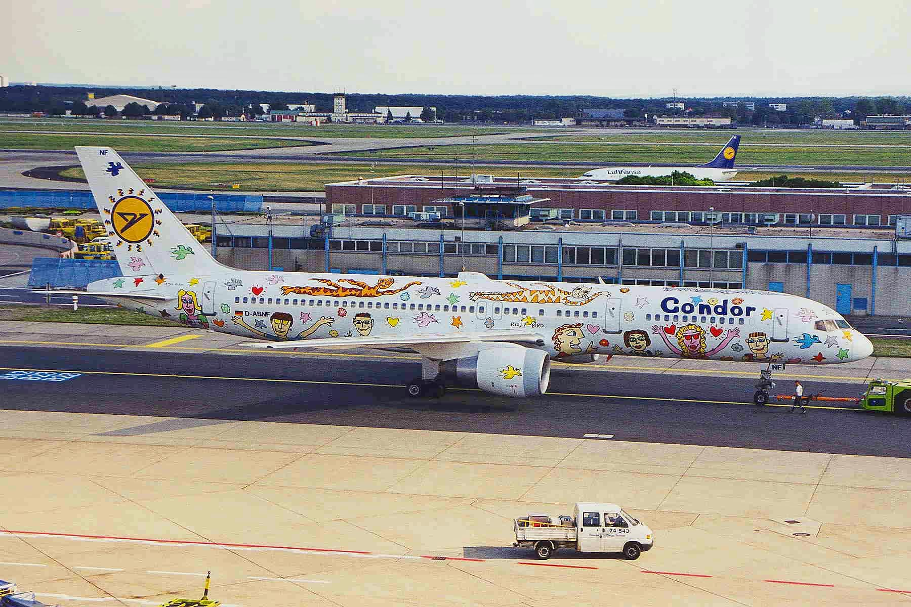 'Rizzi Bird' logojet